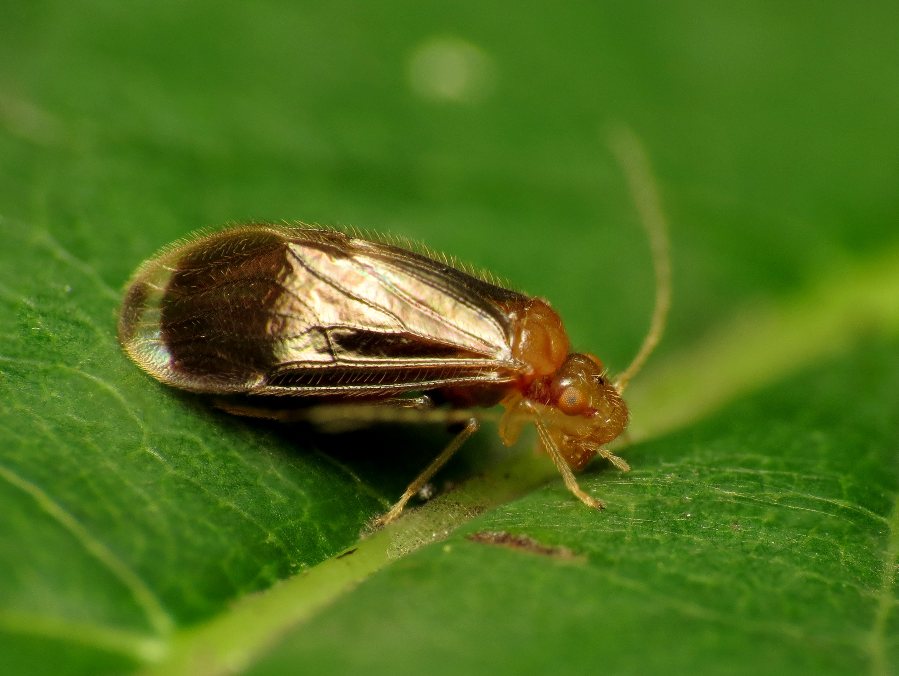 Polypsocus corruptus female. Rock Creek Park, Washington, DC, USA